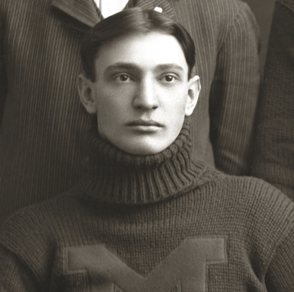 Photograph of Curtis Redden